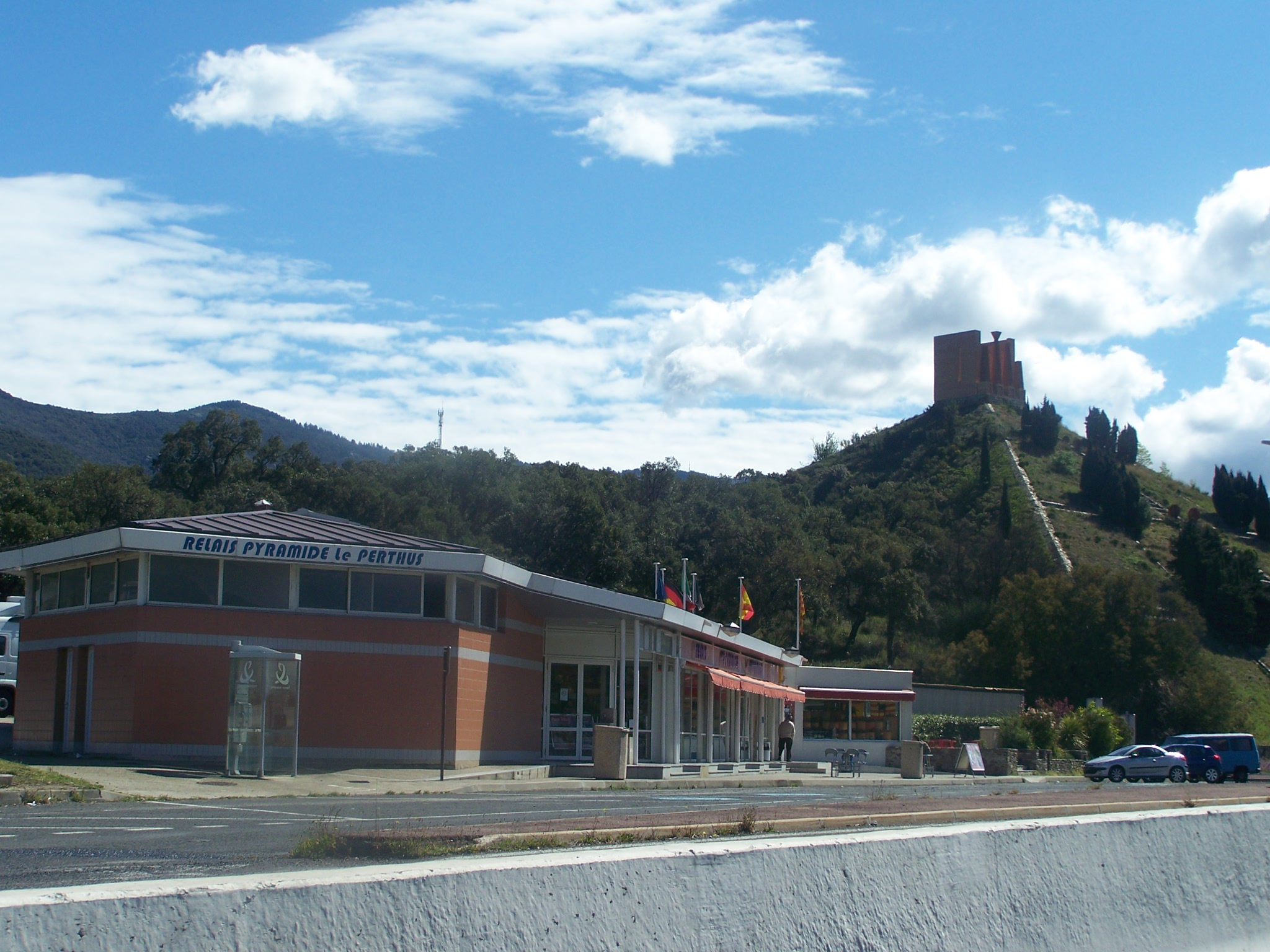 Arriving at the French side of the Perthus pass, border between France and Spain in the Pyrenees.